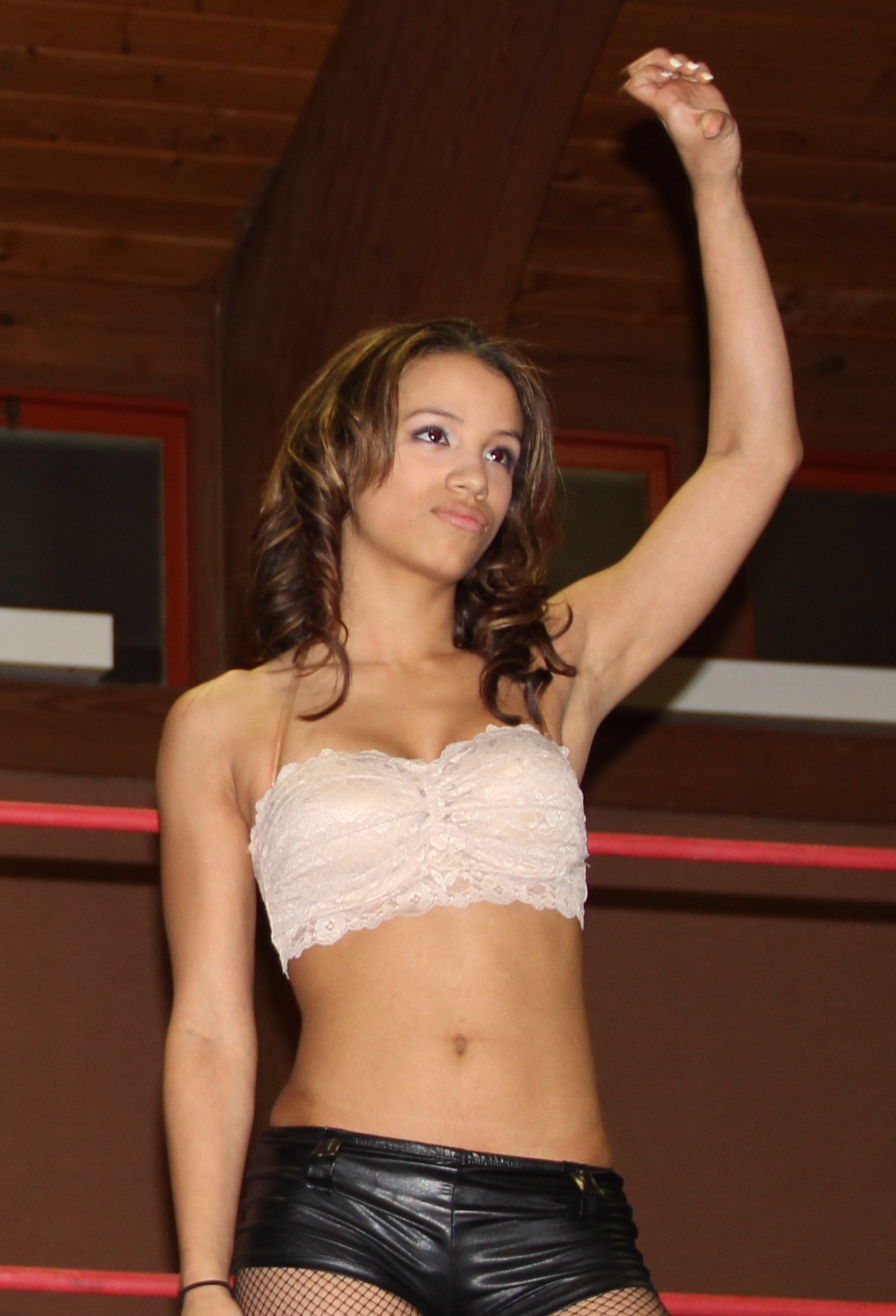 Mercedes KV at EWA in Feeding Hills, MA